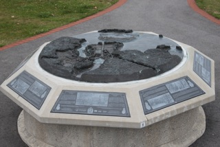 monument heritage park gananoque